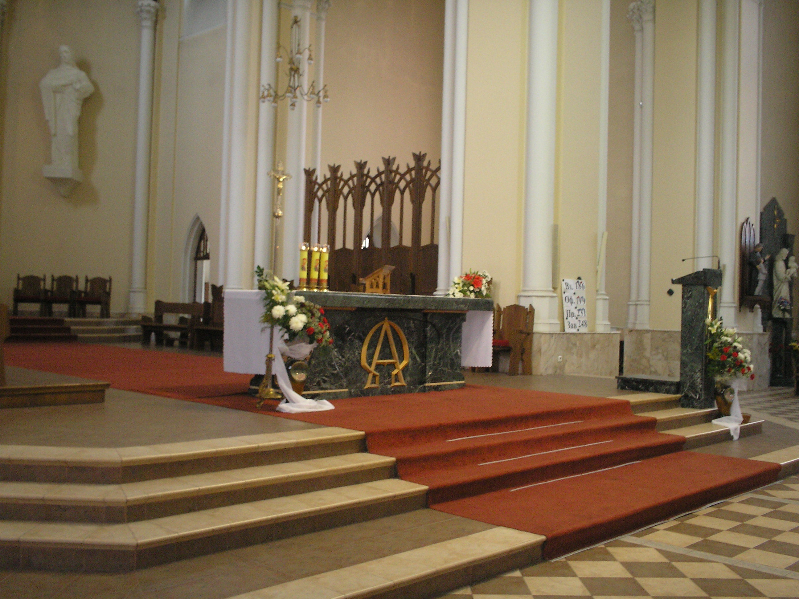 Altar of Moscow Cathilic Cathedral